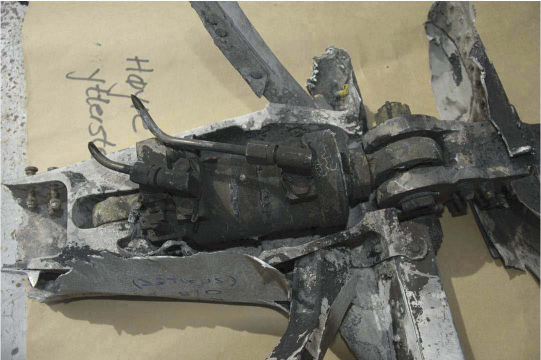 One of the six lift spoiler actuators of Atlantic Airways Flight 670.